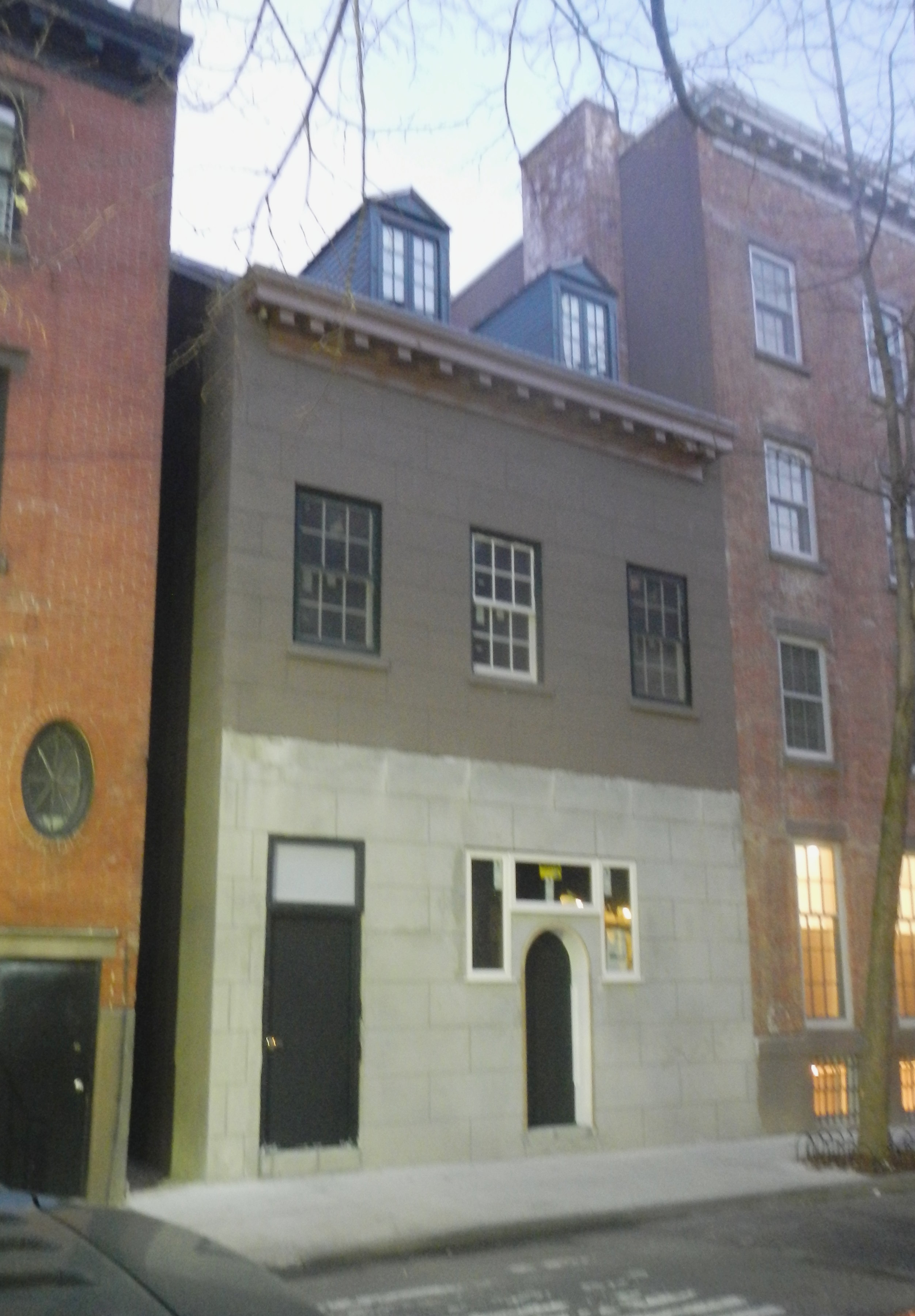 Looking east across Bedford at Chumley's in evening twilight, closed during renovations.